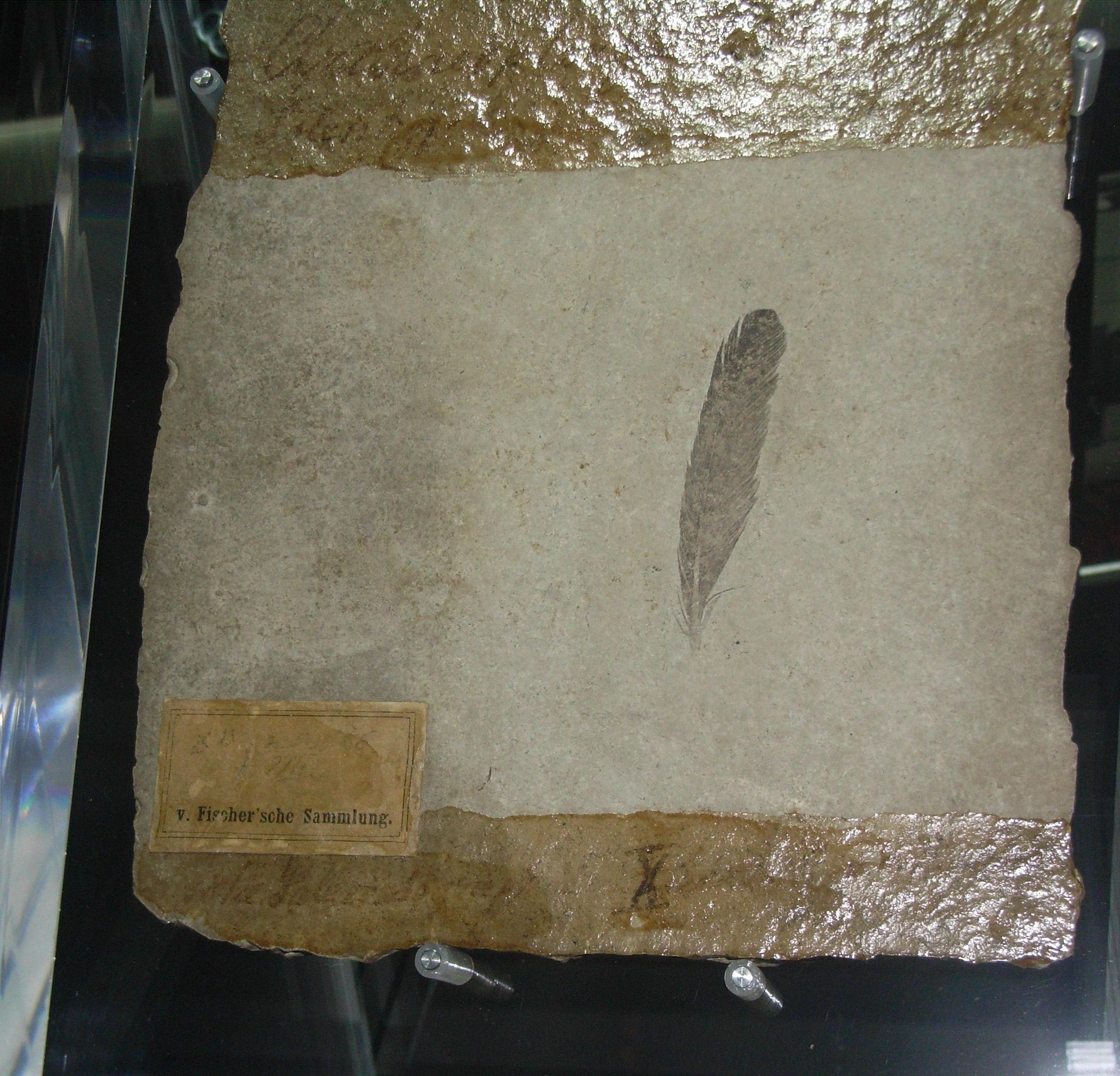 Archaeopteryx The Urvogel Feather On August 15th 1861 Hermann von Meyer gave a first account of a fossil feather found in the Jurassic Period Solnhofen Limestone.He later named it Archaeopteryx lithographica. Up to this day it has remained the only and the oldest single feather.This photo was taken in September 2011 at Museum für Naturkunde in Berlin where the specimen was on public display for the first time.